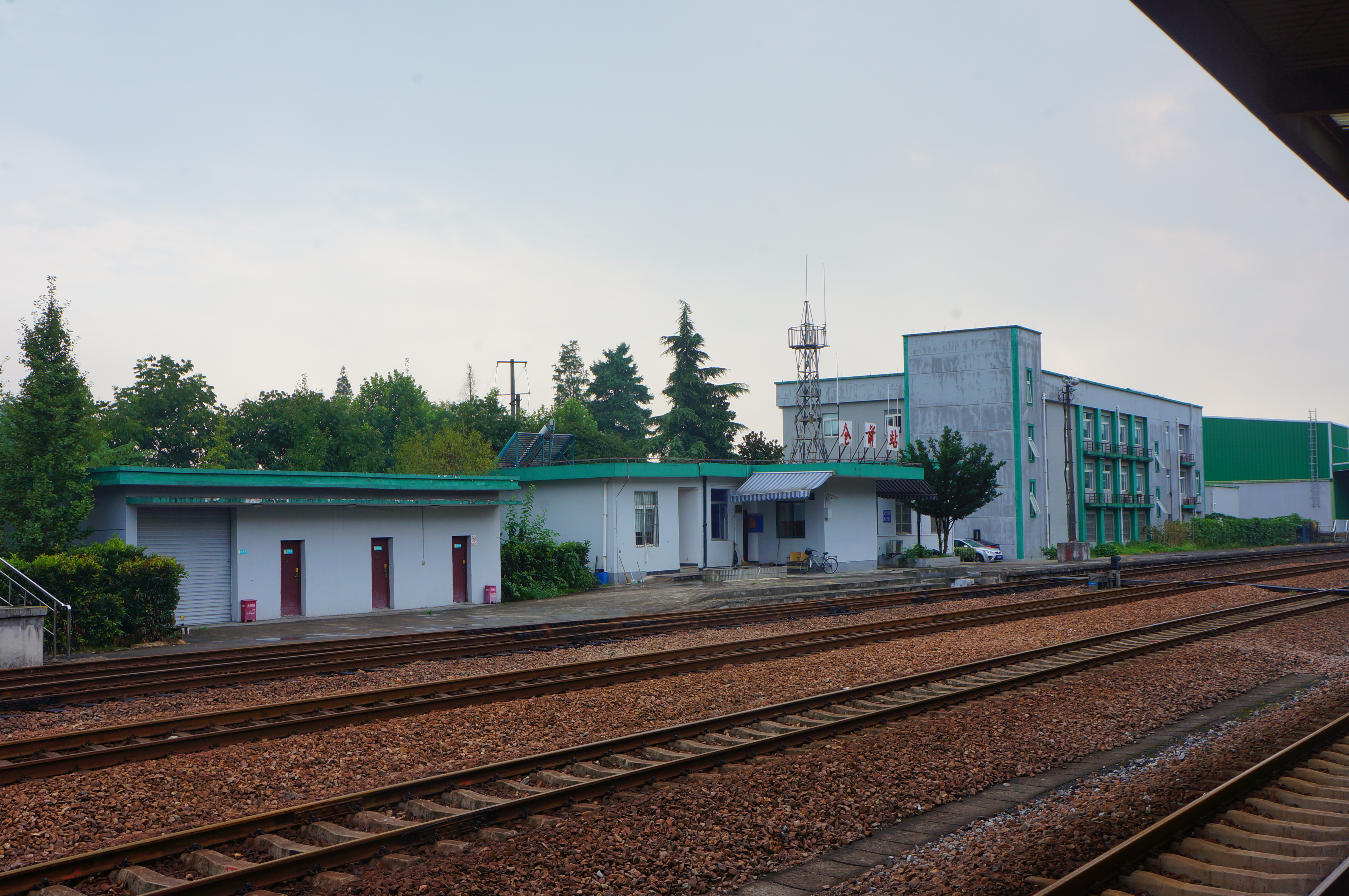 201608 Conductor of Cangqian Railway Station